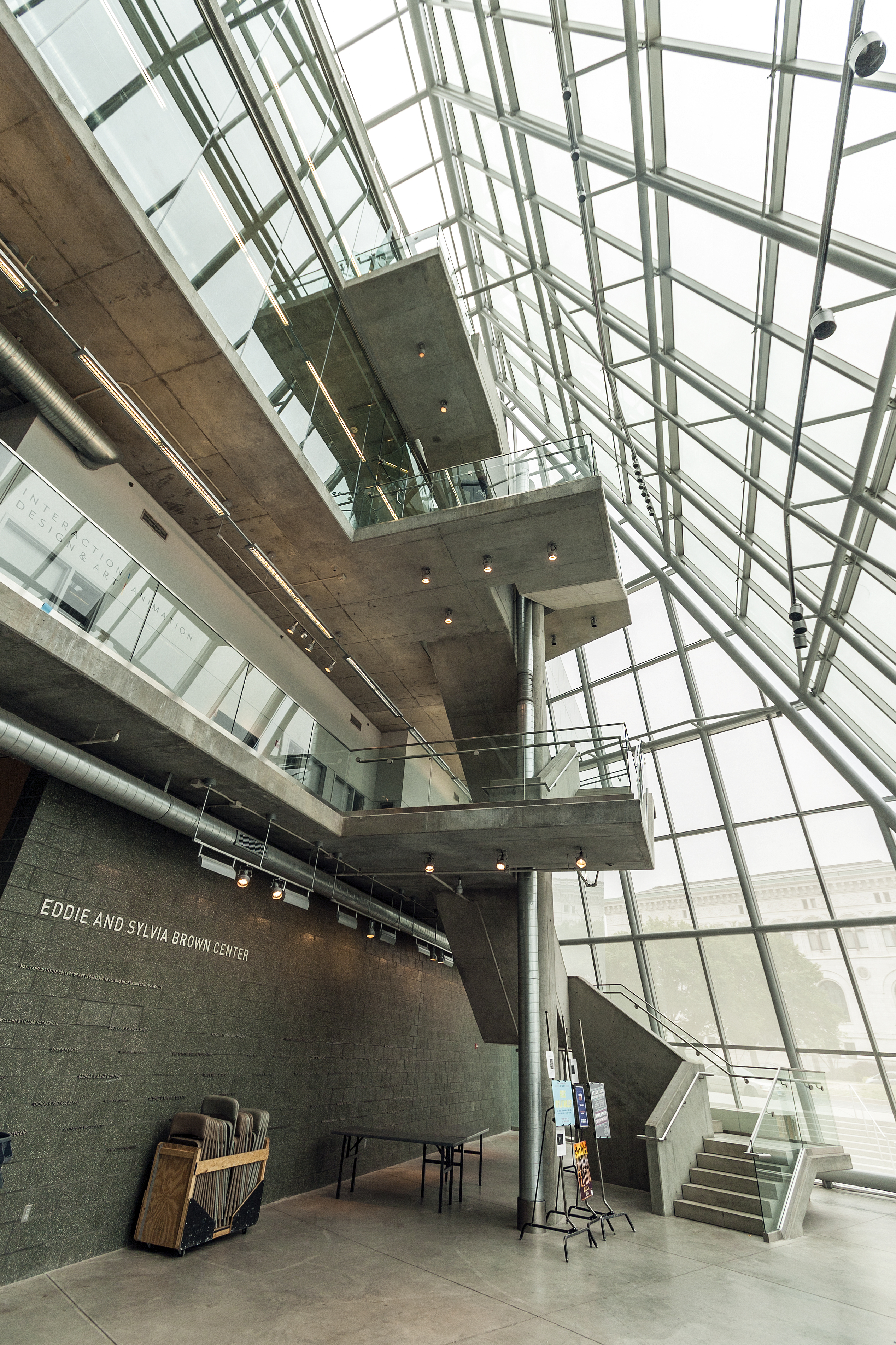 Interior of the Brown Center at the Maryland Institute College of Art, Baltimore, Maryland, USA